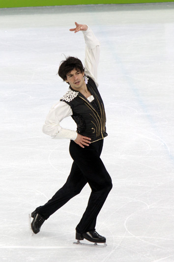 Stéphane Lambiel at the 2010 Winter Olympics.